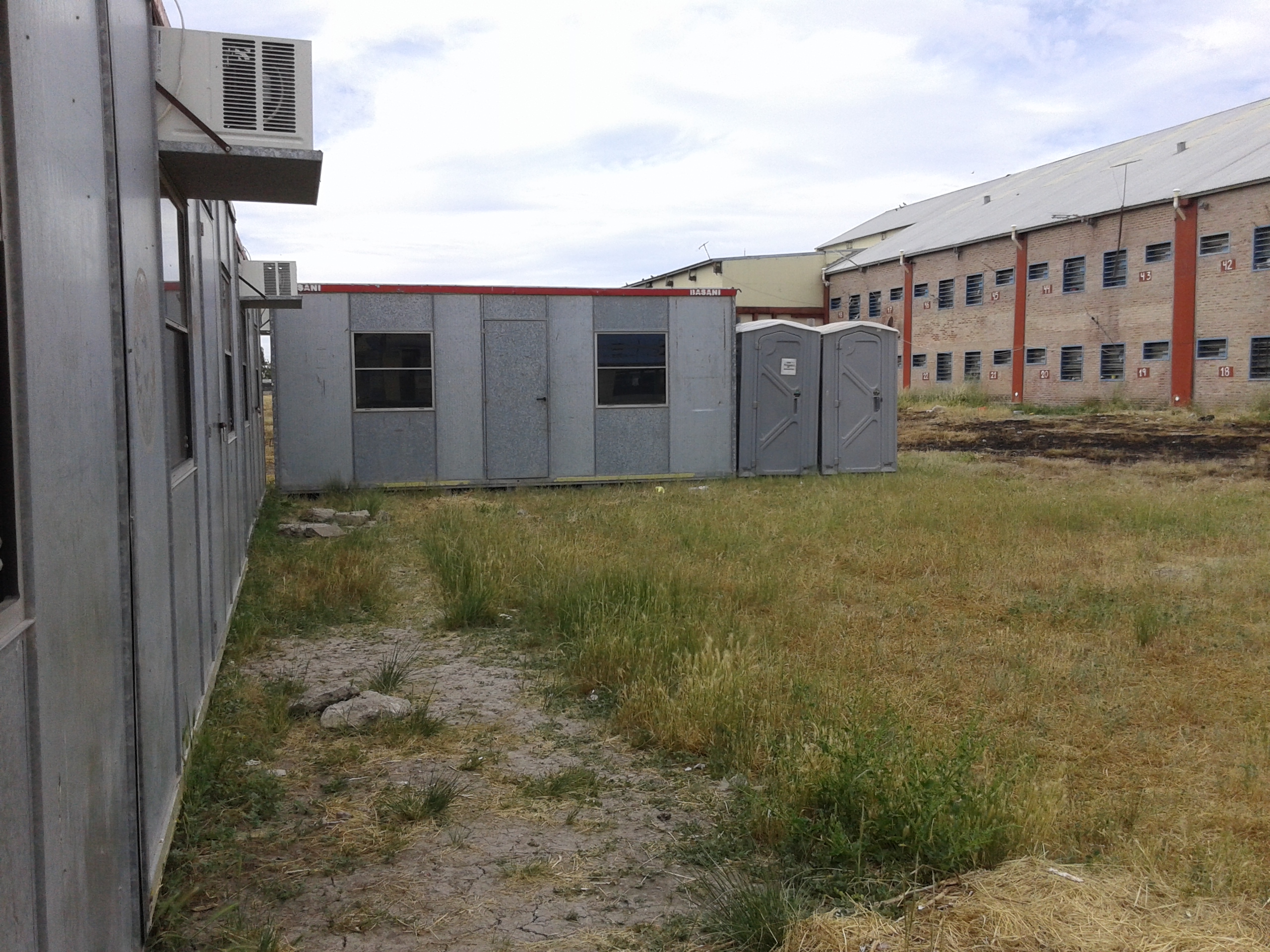 Educación en Contexto de Encierro